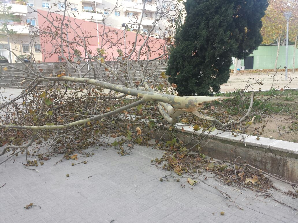 Wind storm Catalunya 2014